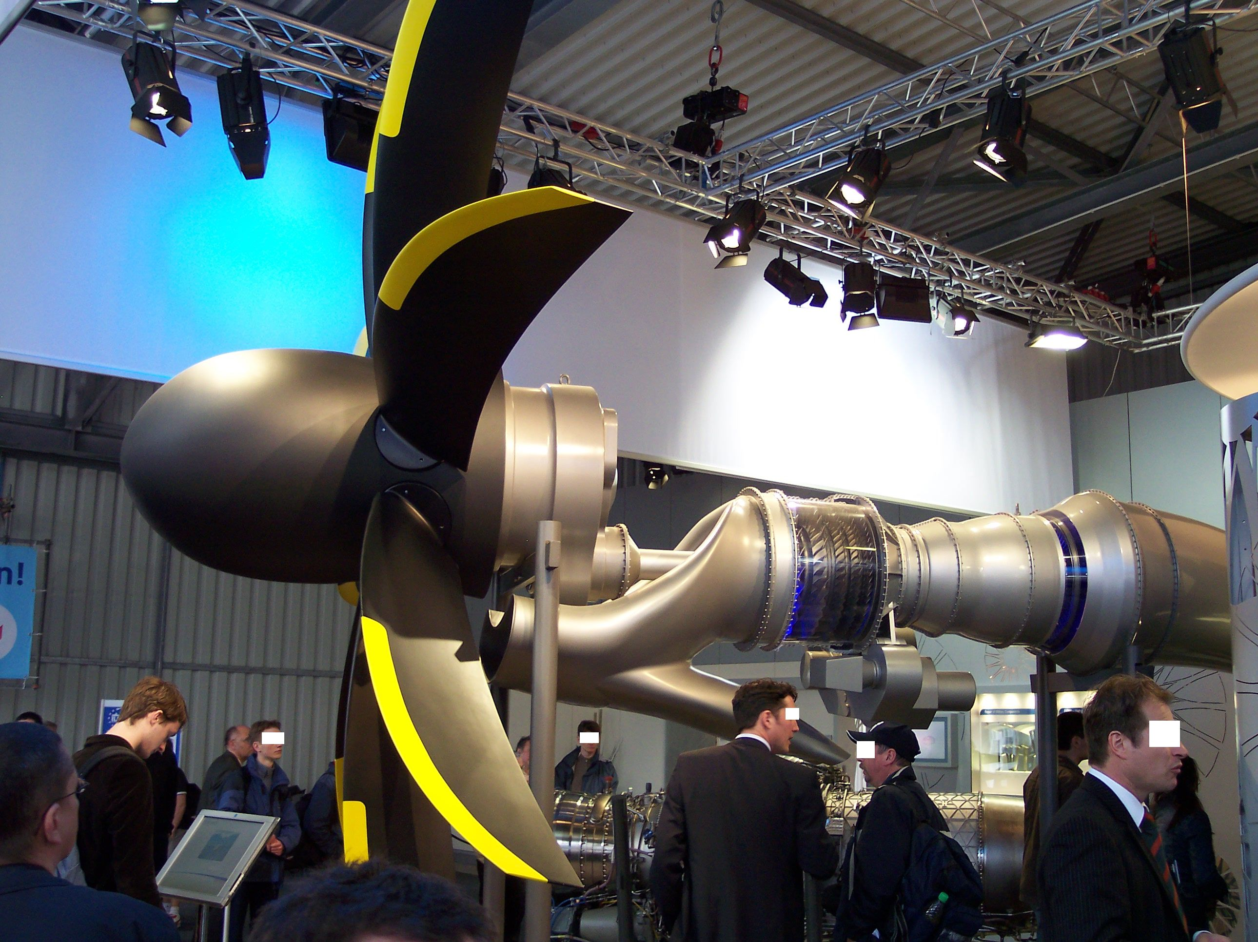 Mockup of a MTU TP400-D6 engine at the ILA 2006 show